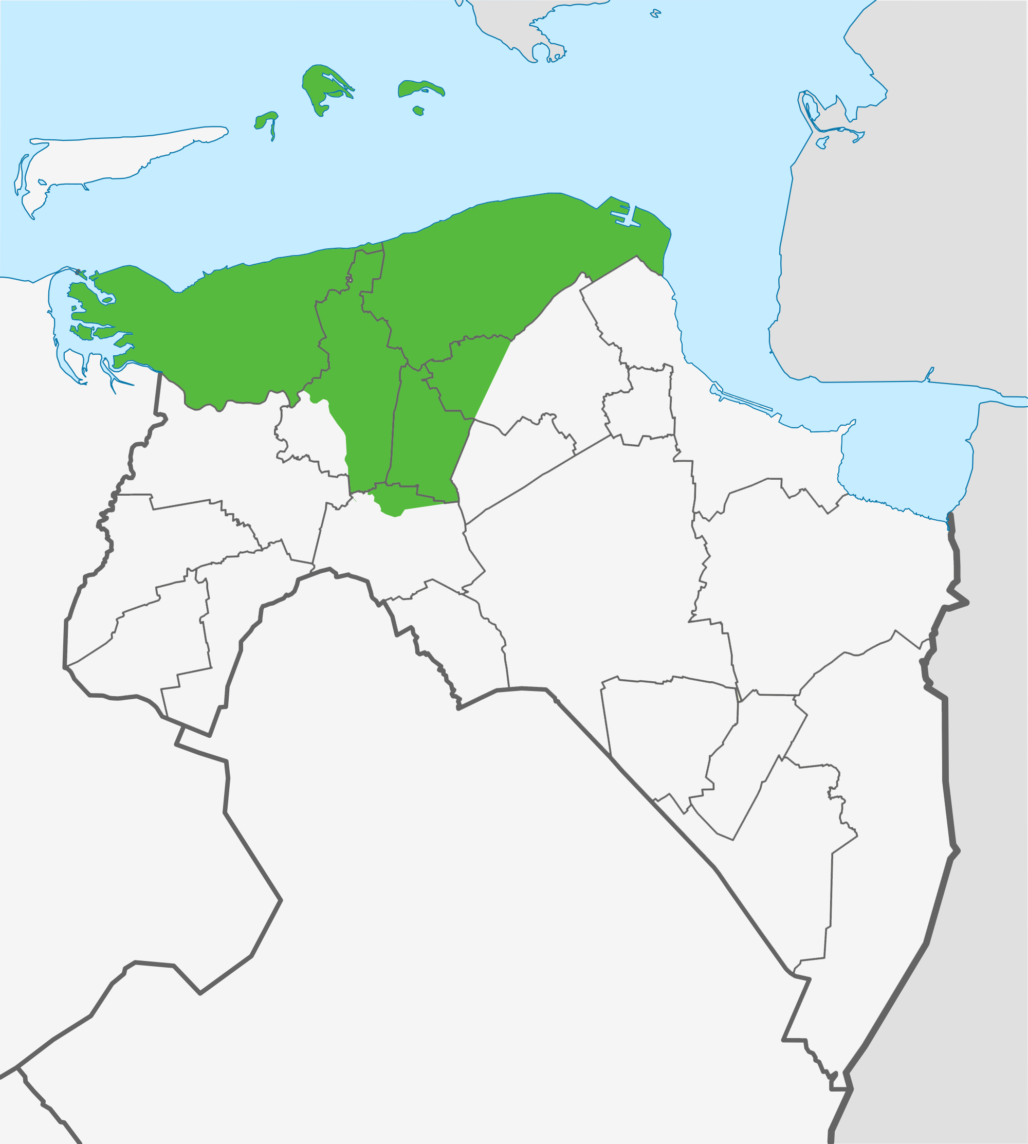 Location of Hunsingo in the province of Groningen